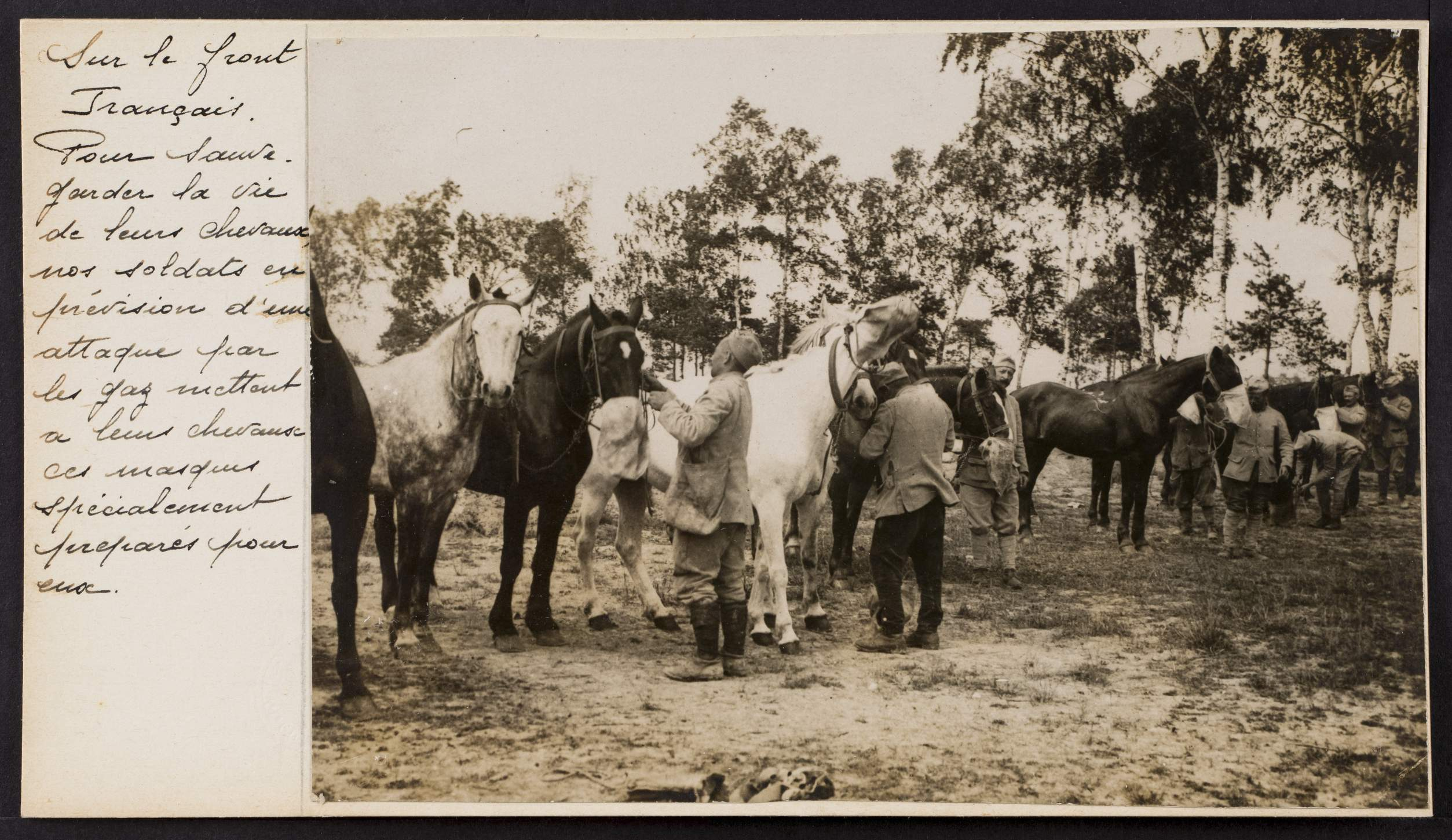 Front français. Masques à gaz pour chevaux.